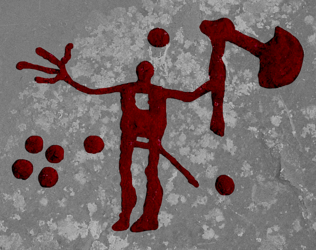 The so called Axe god or Axeman at the rock carvings at Flyhov (RAÄ No Husaby 70:1), Flyhov, Husaby Parish, Kinnefjärding Hundred, Götene Municipality, former Skaraborg County, Västergötland, Västra Götaland County, Sweden. Original photo by Harri Blomberg (Västgöten) in 2006, digital processing by Gunnar Creutz (Achird) in 2013.